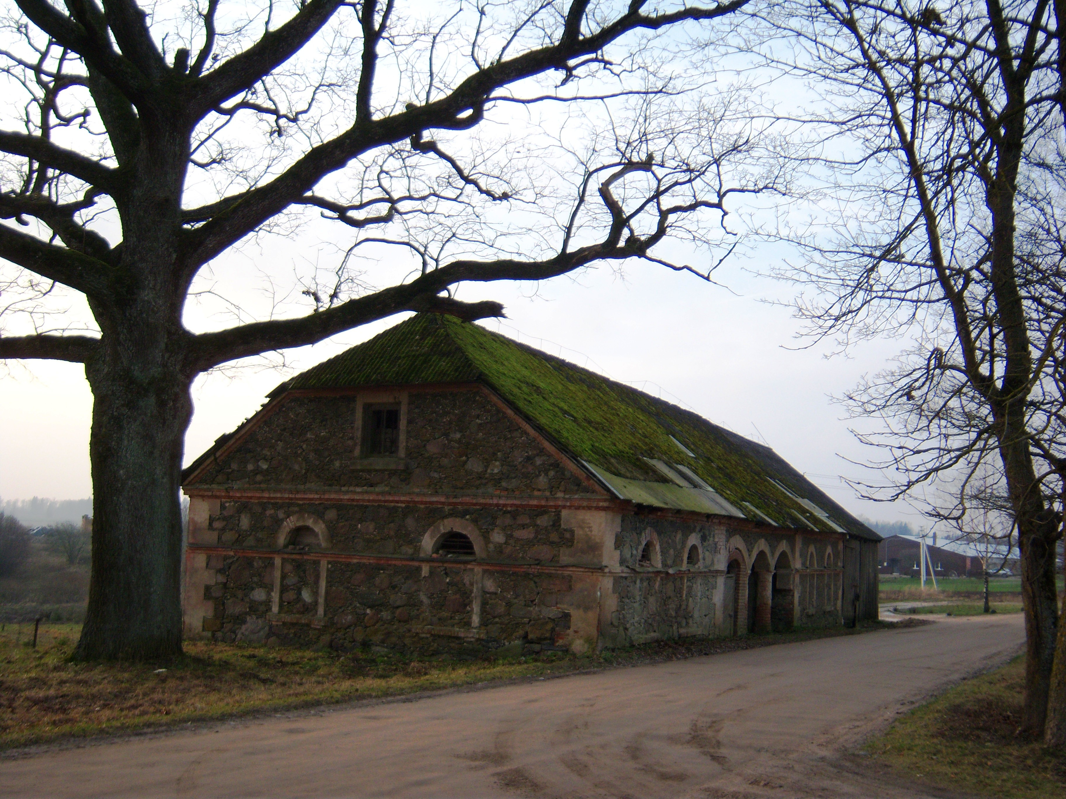 Verpena manor, Raseiniai District, Lithuania